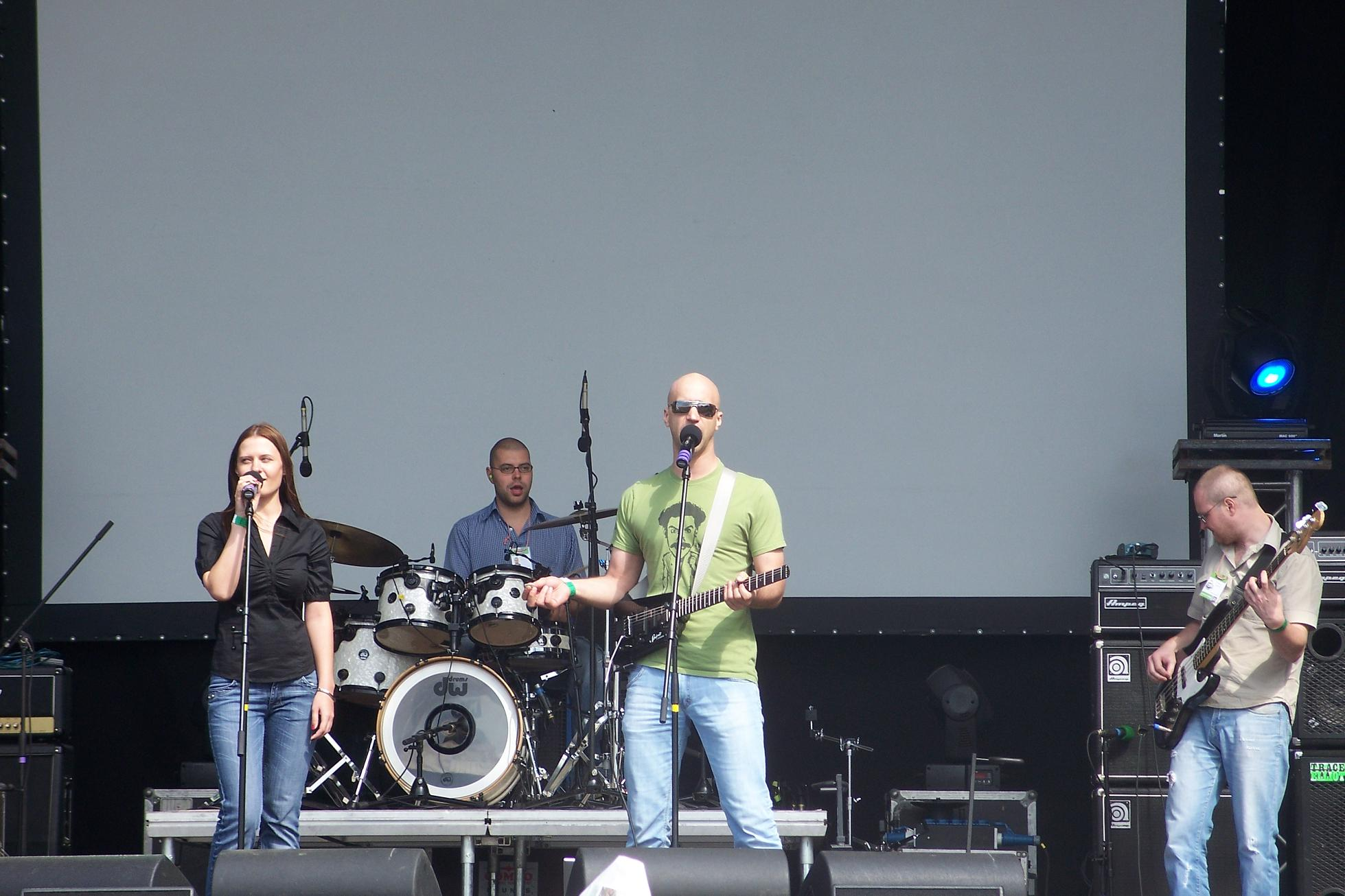 Radioshow